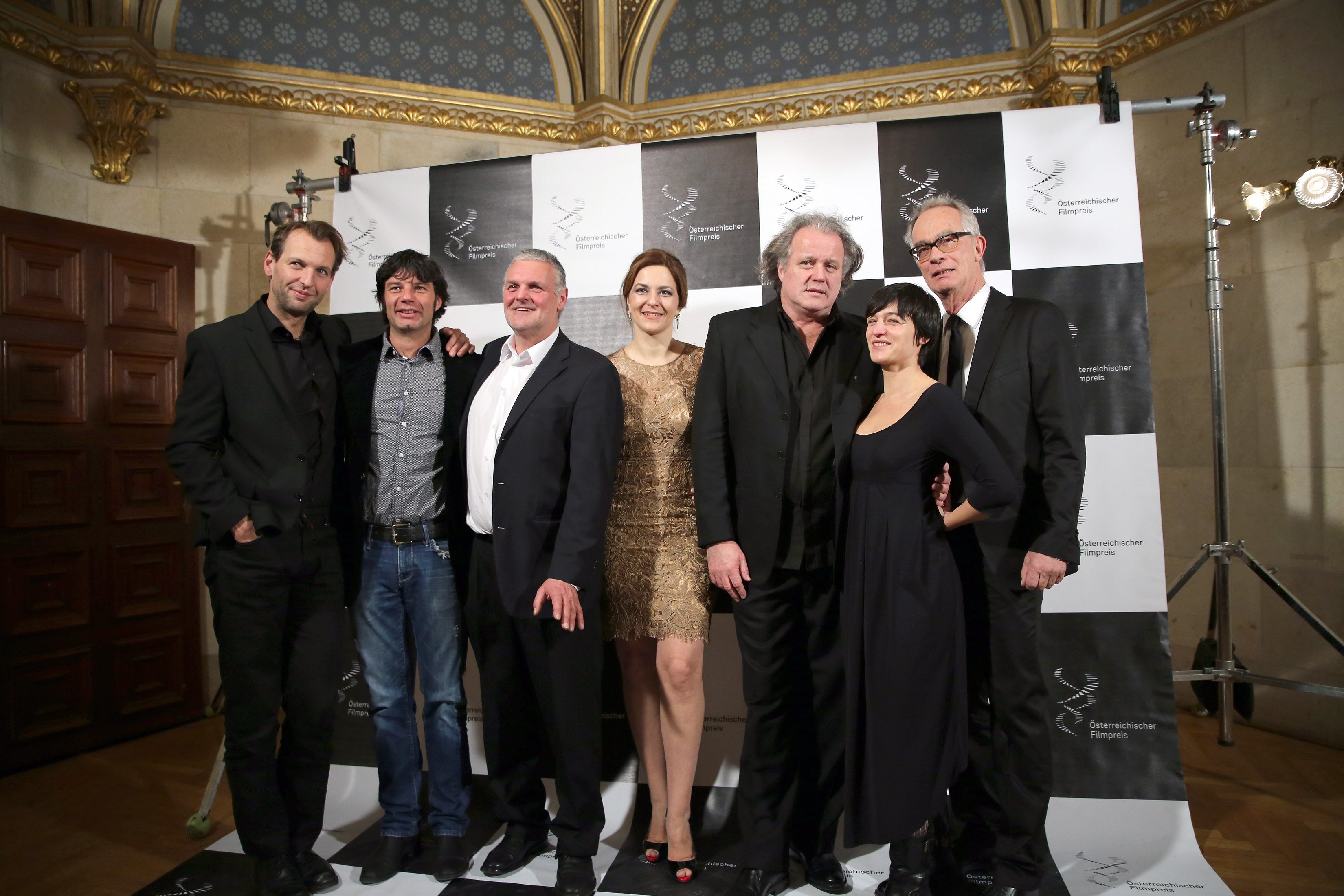 Martin Gschlacht, Antonin Svoboda, Bruno Wagner, Martina Gedeck, Julian Pölsler, Wasiliki Bleser and Rainer Kölmel at the Austrian Film Awards 2013 (Vienna).